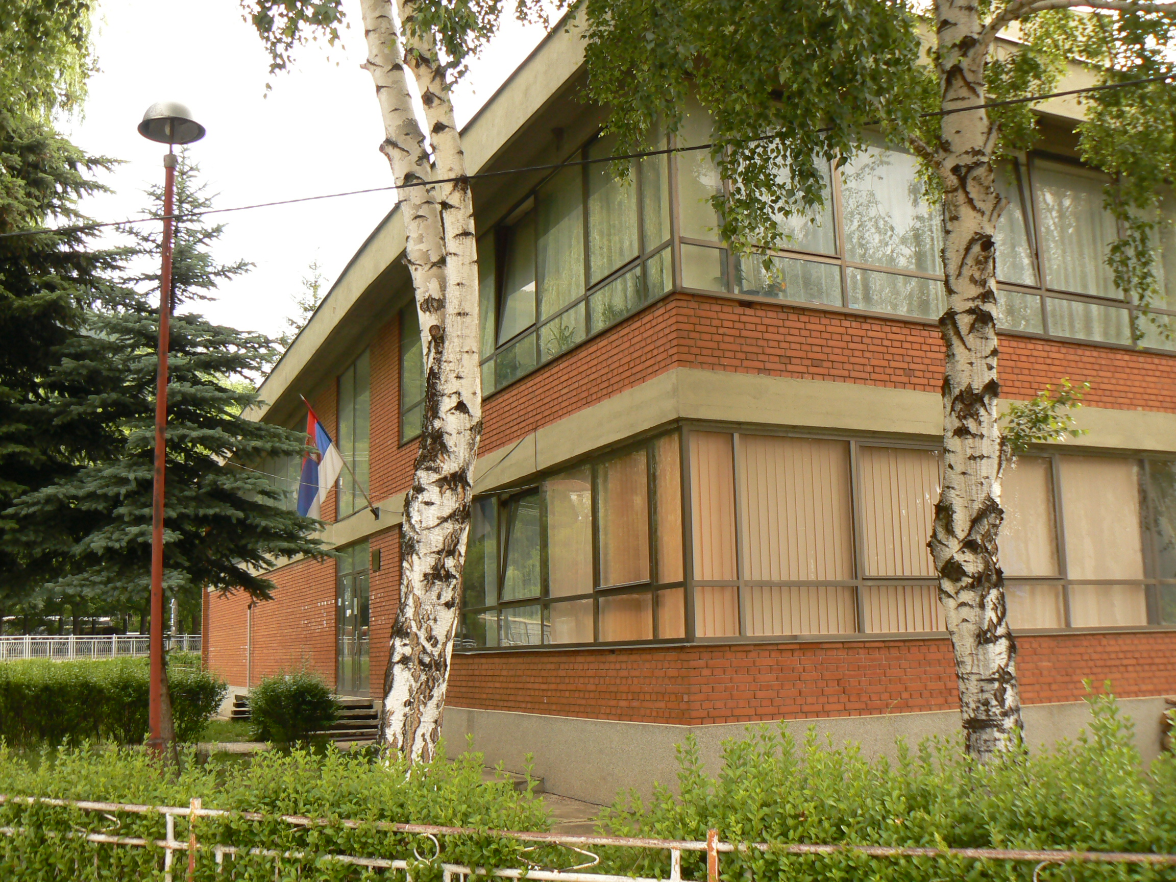 The culture house of Bosilegrad